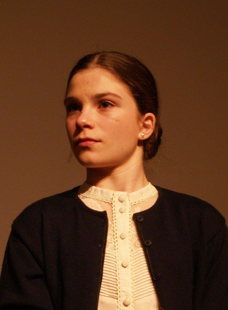 Tehilla Blad at the Annonay Film Festival 2011